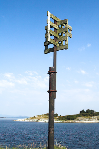 Non-IALA Seamark in Norway: Stong with wooden marker